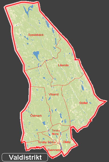 electional districts